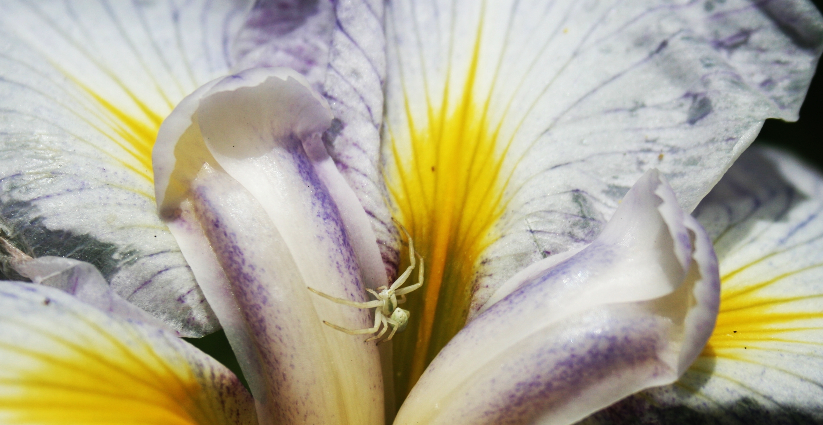 White Crab Spider (Thomisus spectabilis) at Japanese Iris Iris sanguinea